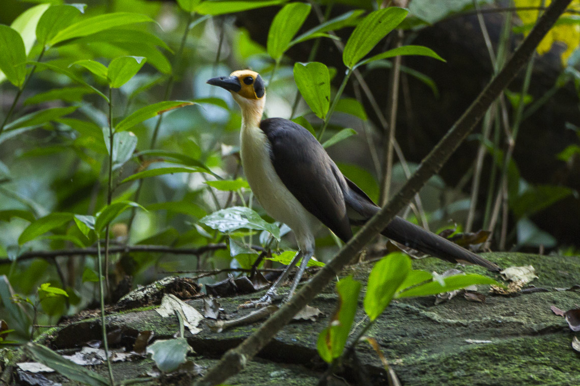 Original caption: "This is the only decent image I could take of this unique bird, unfortunately he stayed at the site only for 2 minutes , always hopping around before flying away." (= Picathartes gymnocephalu)